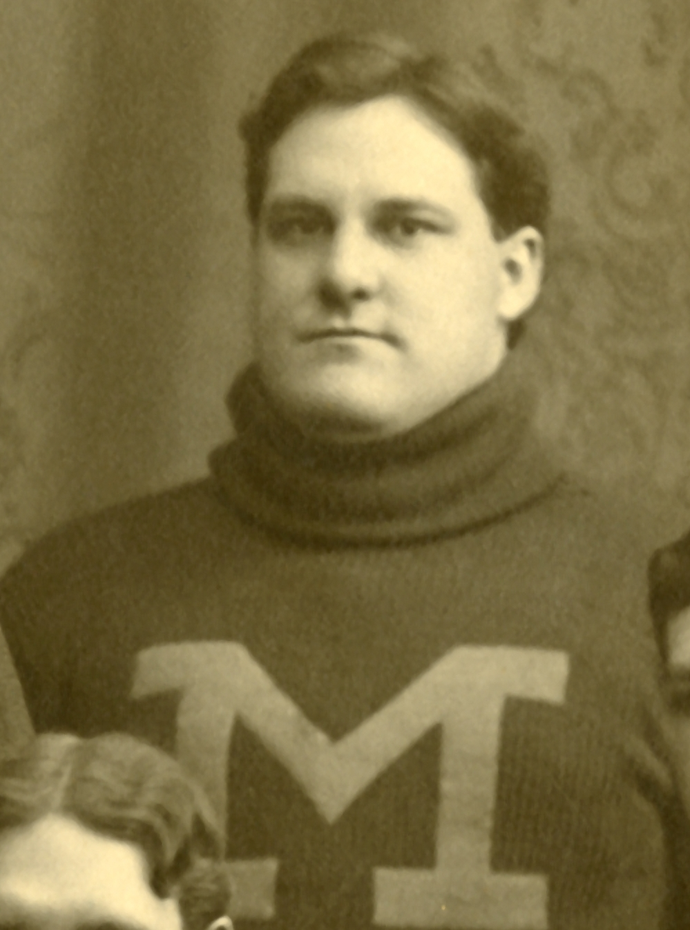 Photograph of William Cunningham